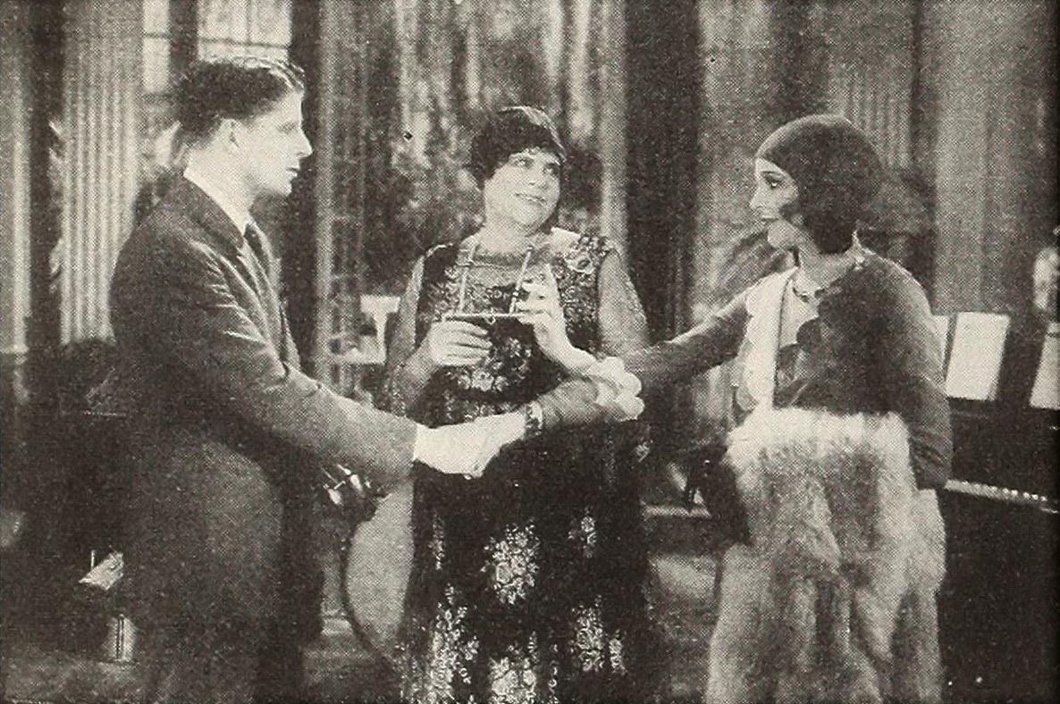 Screenland, Jan. 1930